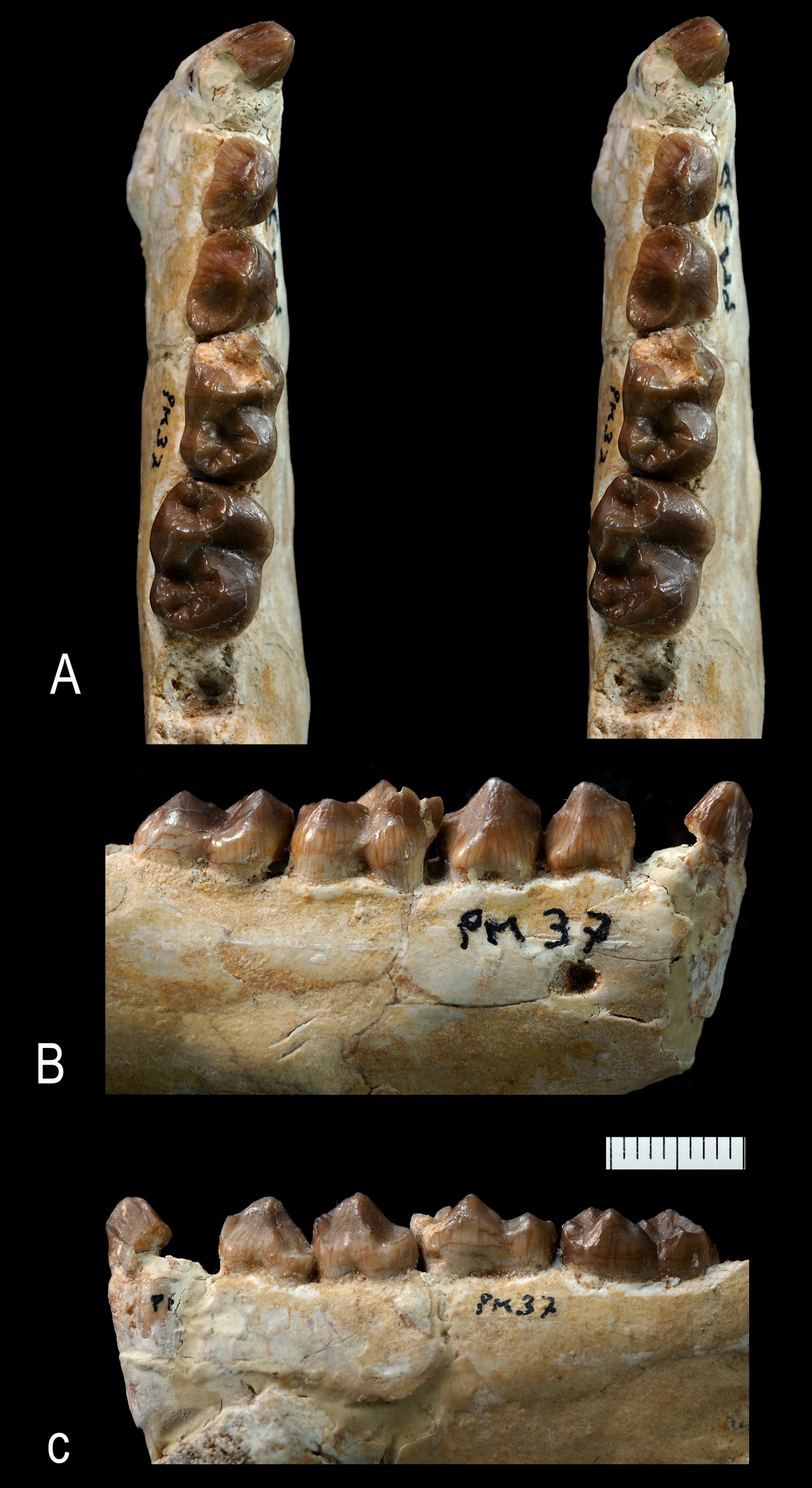 Ocepeia grandis n. sp., Thanetian (Phosphate level IIa), Sidi Chennane, Ouled Abdoun Basin, Morocco. Holotype, MNHN.F PM37, fragment of right dentary bearing C1, P3–4, M1–3, in occlusal (stereophotograph, a), labial (b) and lingual (c) views. Scale bar in millimeters. Scale bar:10 mm.